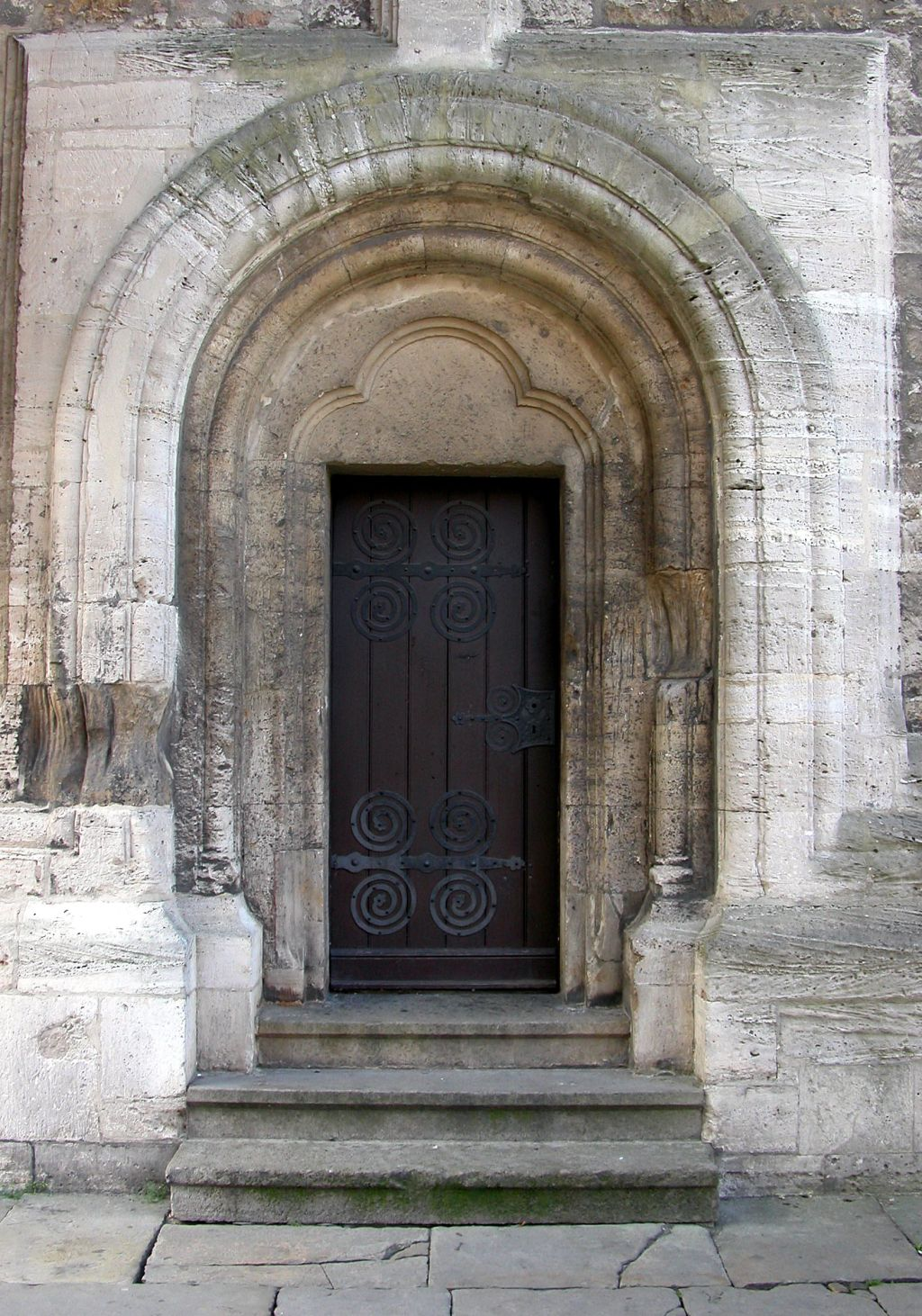 Brunswick Cathedral - Loewenportal